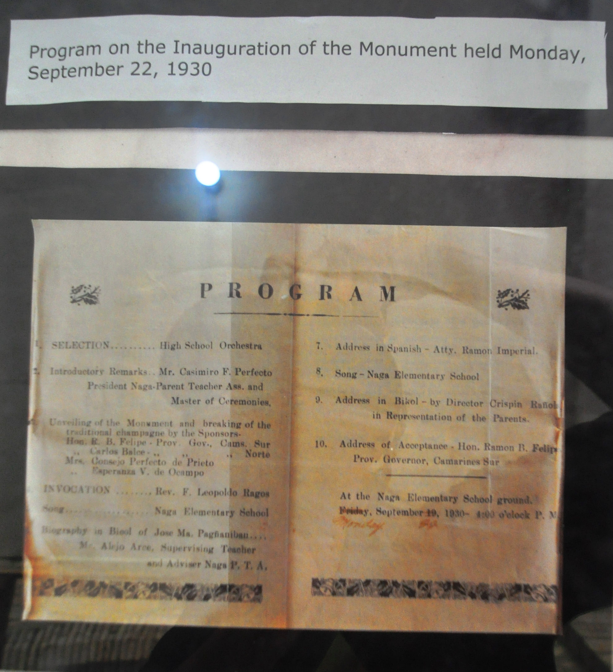 Jomapa monument inauguration program 1930 article